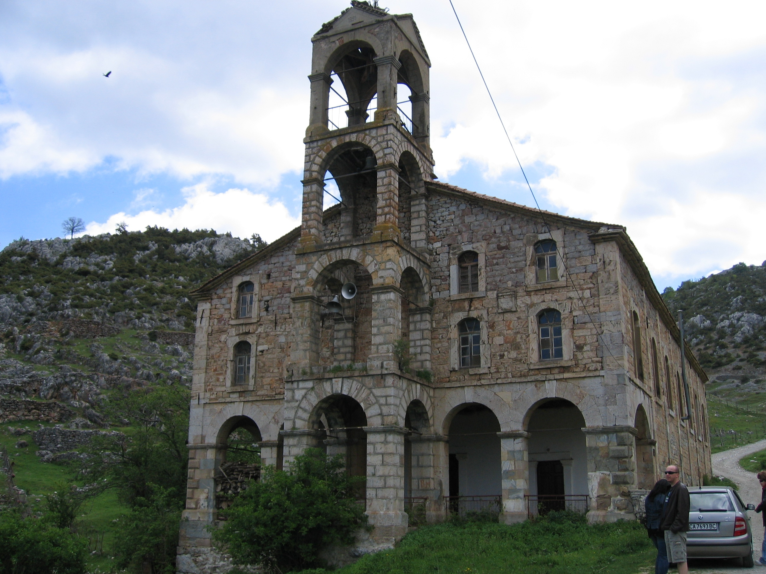 Church in the village of Kristalopigi, Greece.